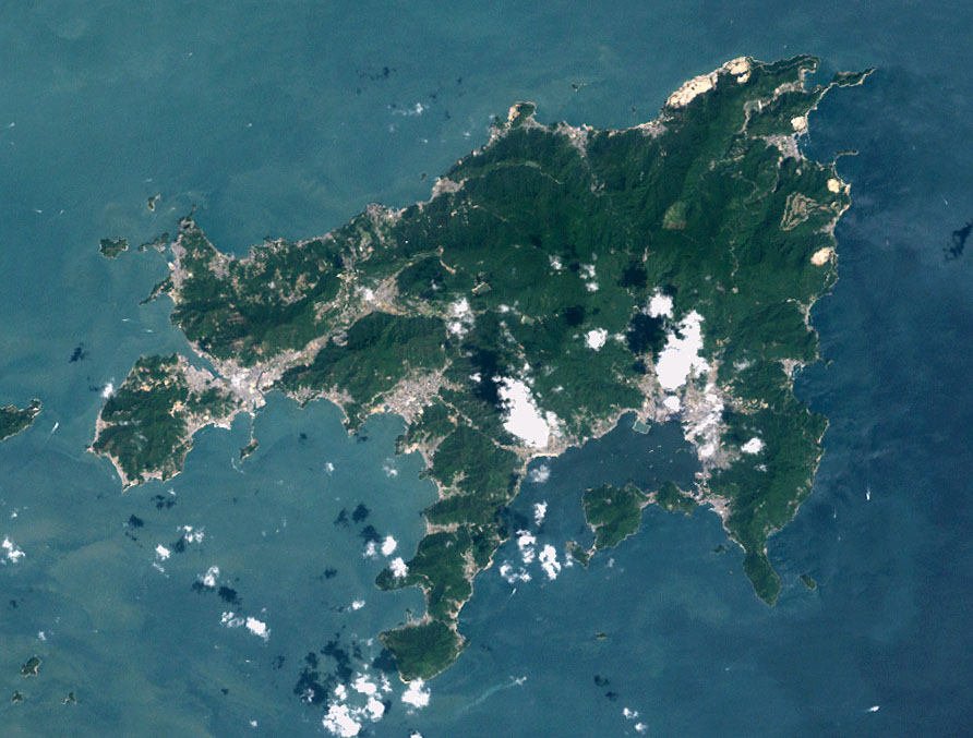 Landsat image of Shodo-shima, Japan.